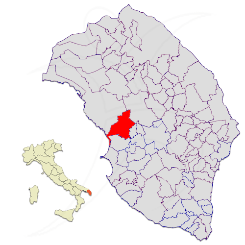 Il territorio del comune di Galatone nella provincia di Lecce